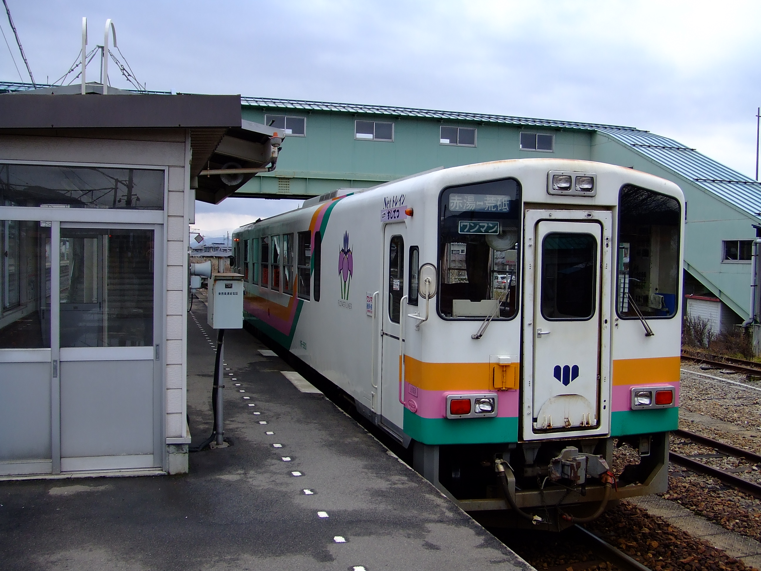 A 'wanman' train on the Flower Nagai Line at Akayu Station. I took this photo with a digital camera on 16th December 2006.